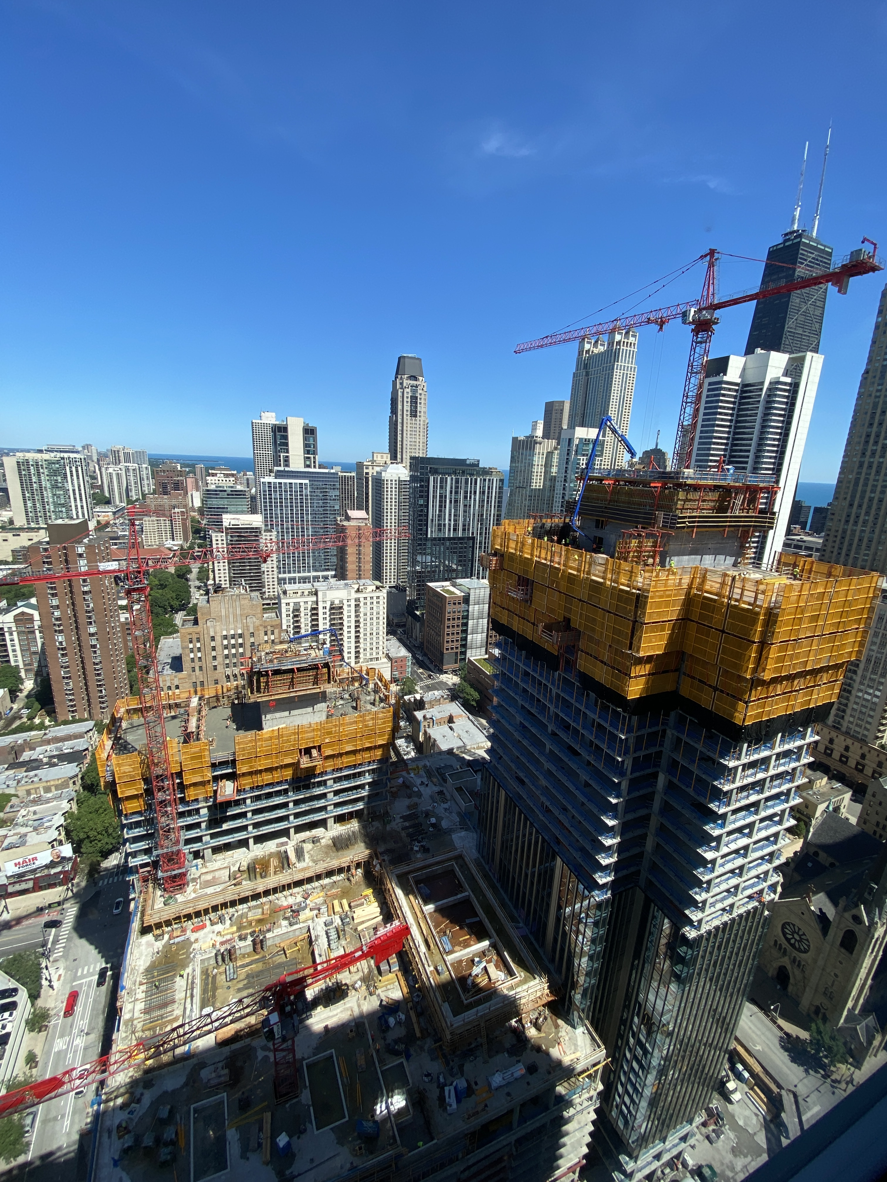 One Chicago Square from 44th floor of One Superior Place